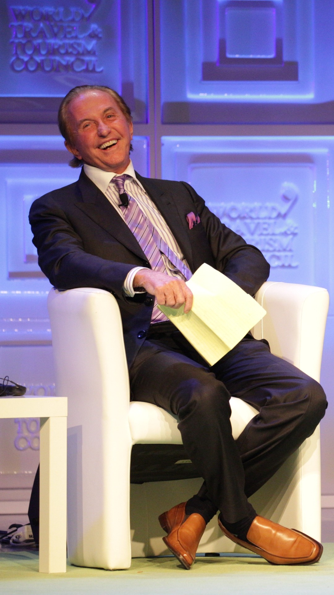 WTTC Global Summit 2015 World Travel & Tourism Council Flickr images